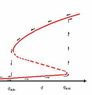 منحنی نوکیاما برای اشباع اب